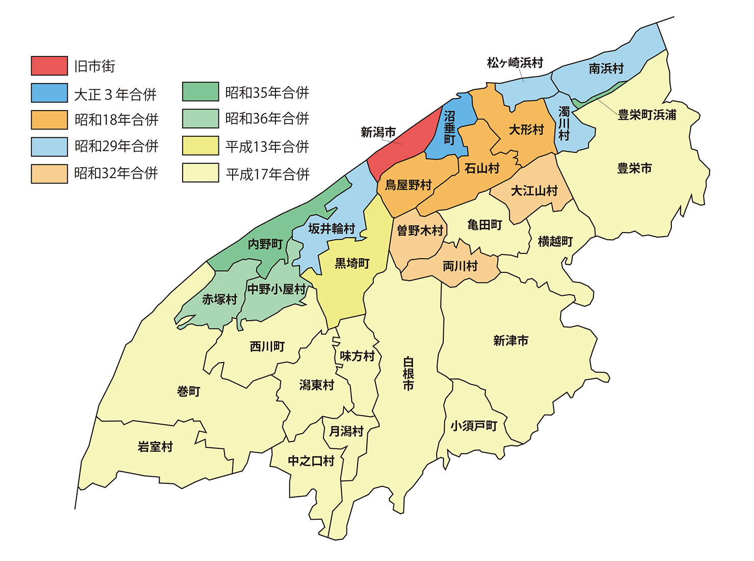 Image that showed details of amalgamation of Niigata Prefecture Niigata City from 1889 to present.